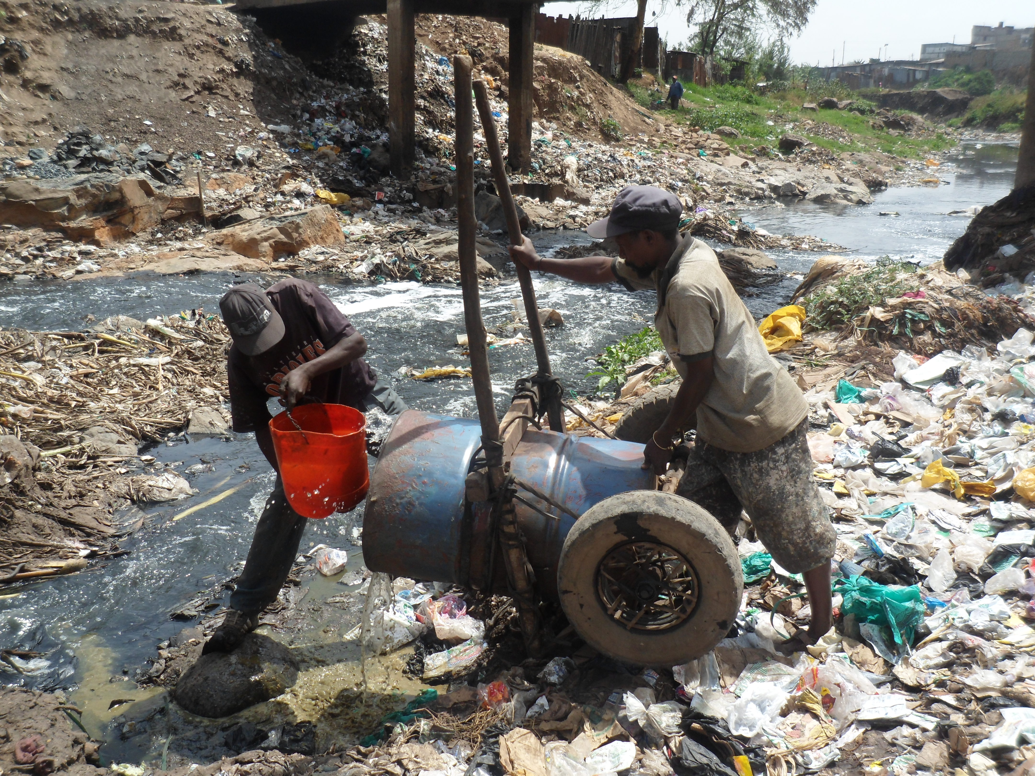 Kenya - Manual Pit Emptying in Korogocho